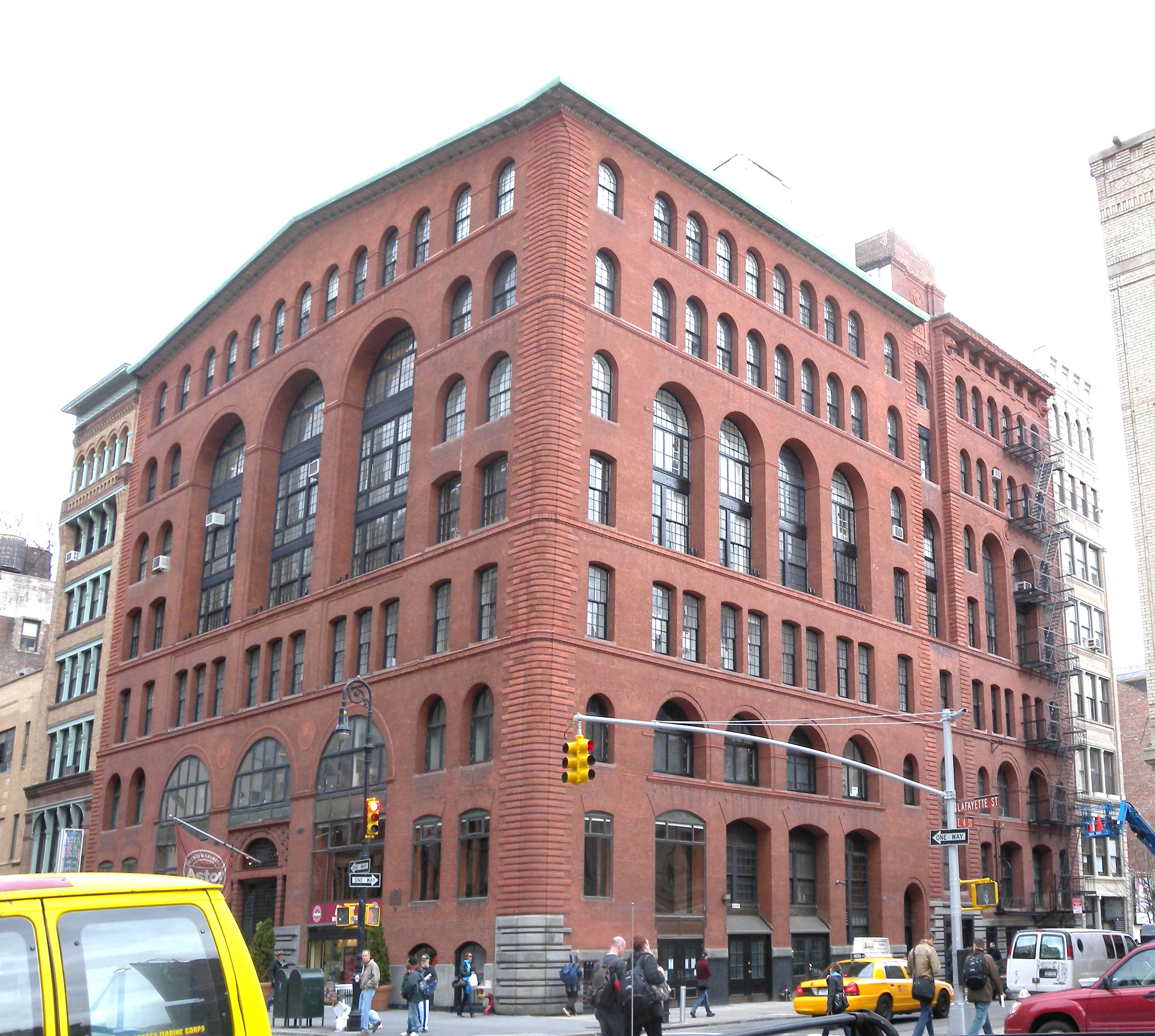 Looking east across Lafayette Street, New York City and East 4th Street at Devinne Press Building, 393 Lafayette Street on a cloudy afternoon. NYCLPC designation 1966; Guidebook map 6.